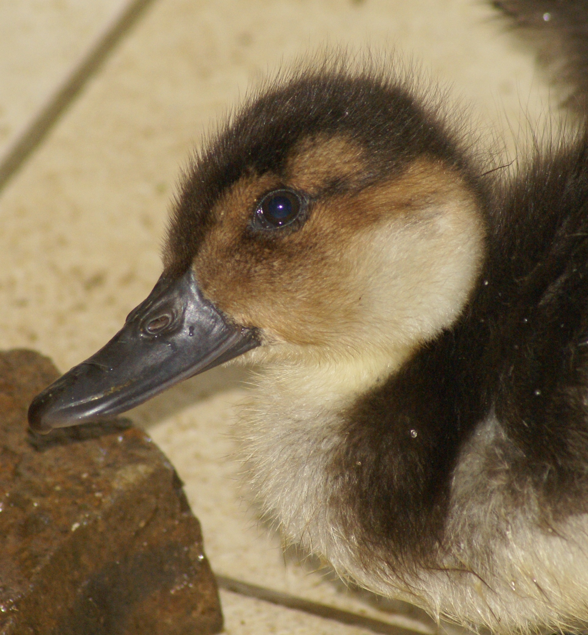 Bronze-winged duck, Anas specularis, juvenile at Tiergarten Bernburg, Germany